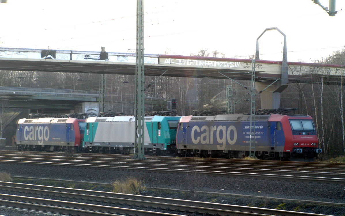 Three Bombardier TRAXX locomotives in Hamburg-Wilhelmsburg freight terminal: Those on the left and on the right are Re 482 owned by the Swiss Federal Railways Cargo, that in the middle is a Type 185 locomotive owned by ATC and operated by HGK.